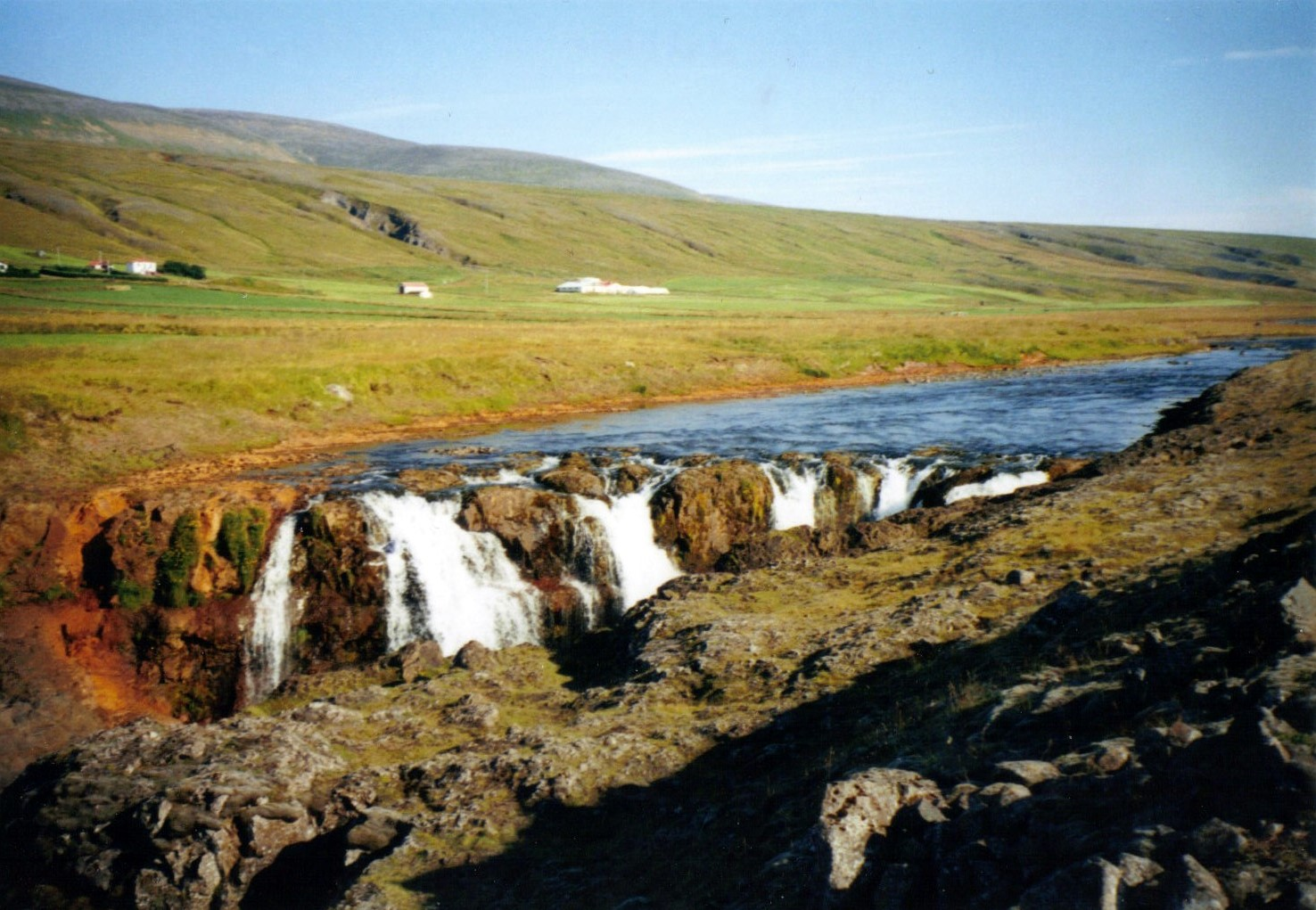 The upper part of the waterfall Kolufossar in the river Víðidalsá in Víðidalur valley in Iceland. The gorge is called Kolugljúfur.